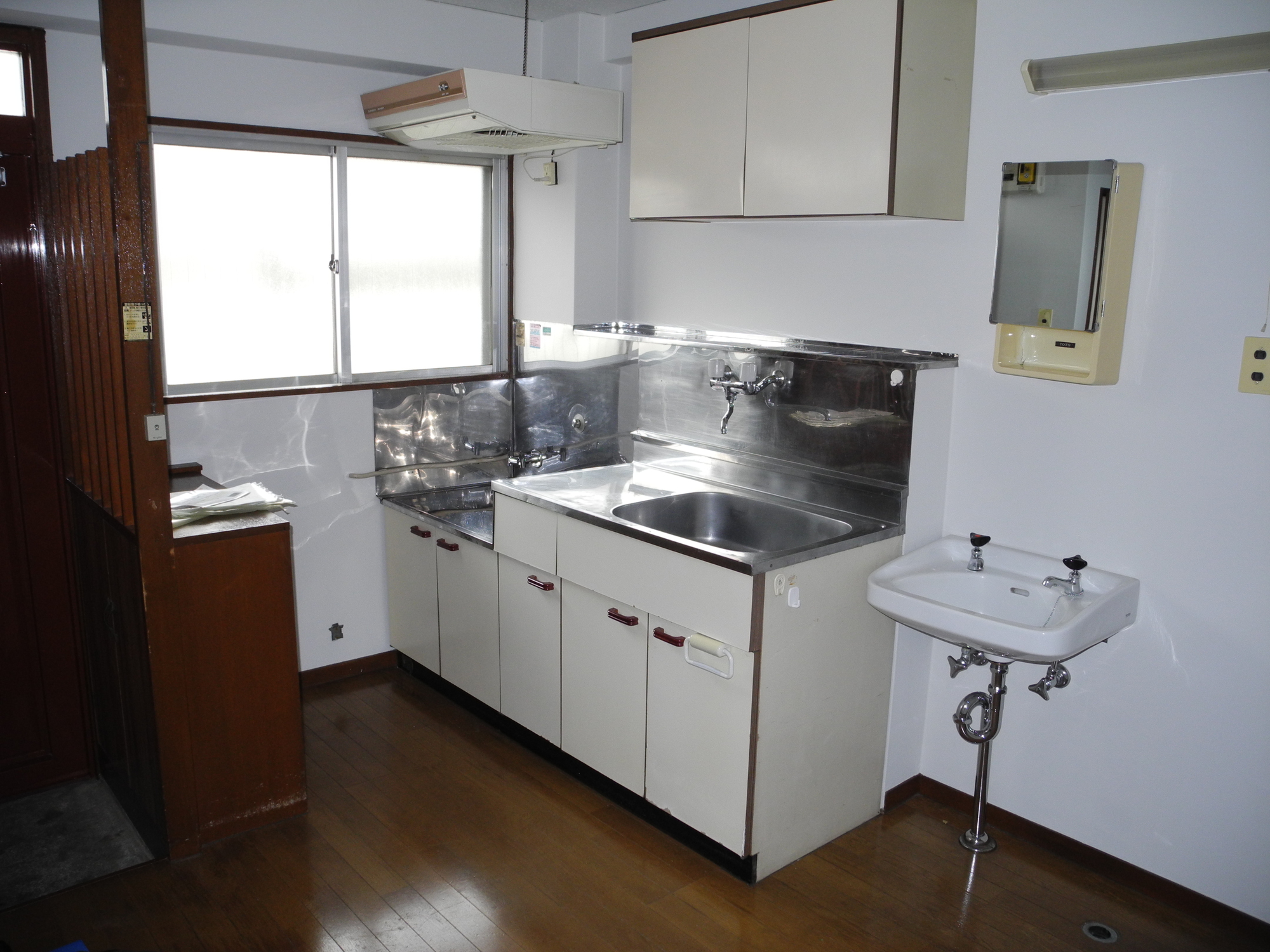 A basic kitchen in a Japanese apartment. Photographed in Tokyo. The building was built in 1978, later remodeled.